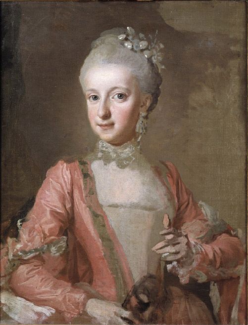 Uncompleted